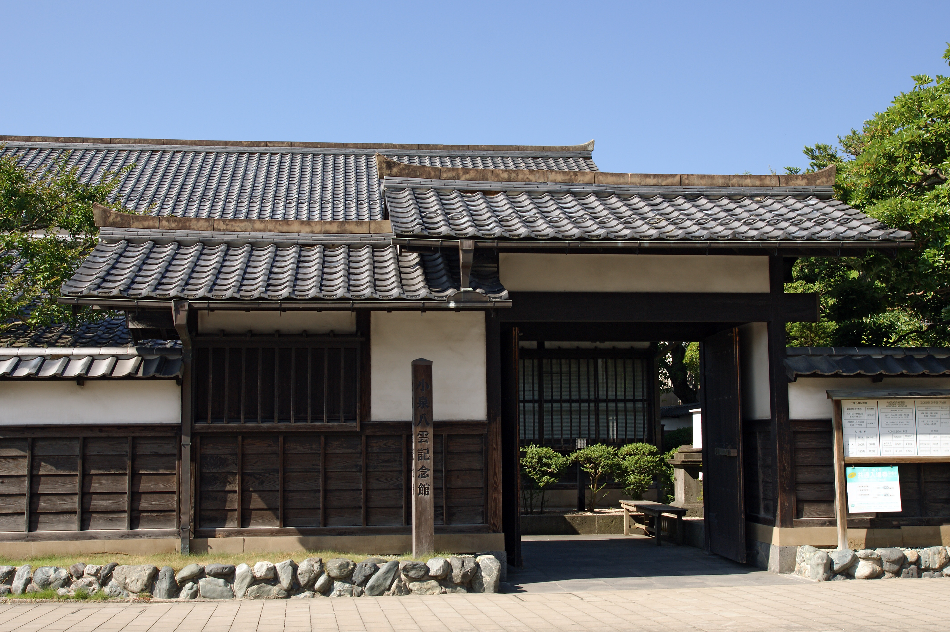 Lafcadio Hearn Memorial Hall in Matsue, Shimane prefecture, Japan